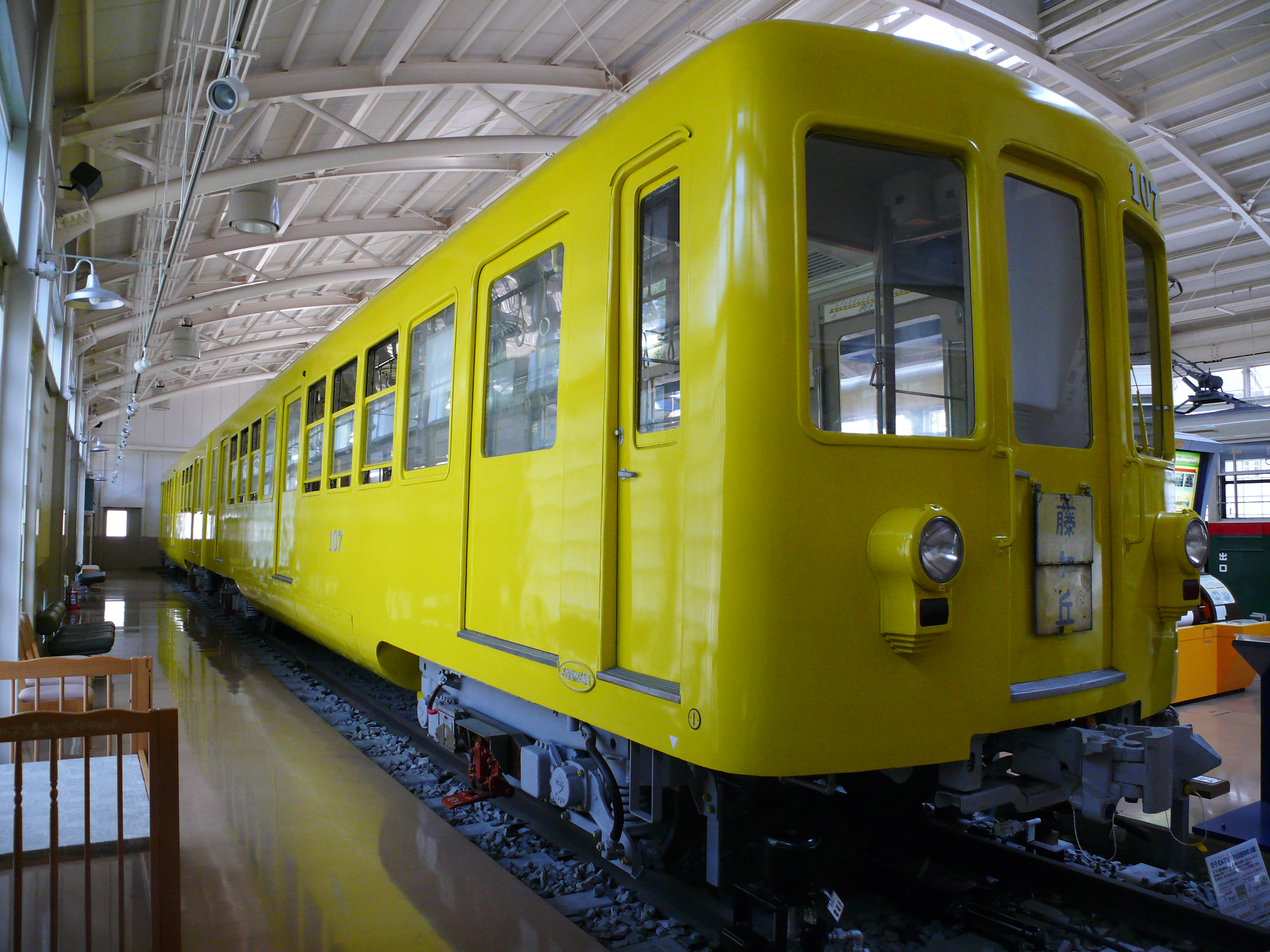 Nagoya City Tram & Subway Museum.